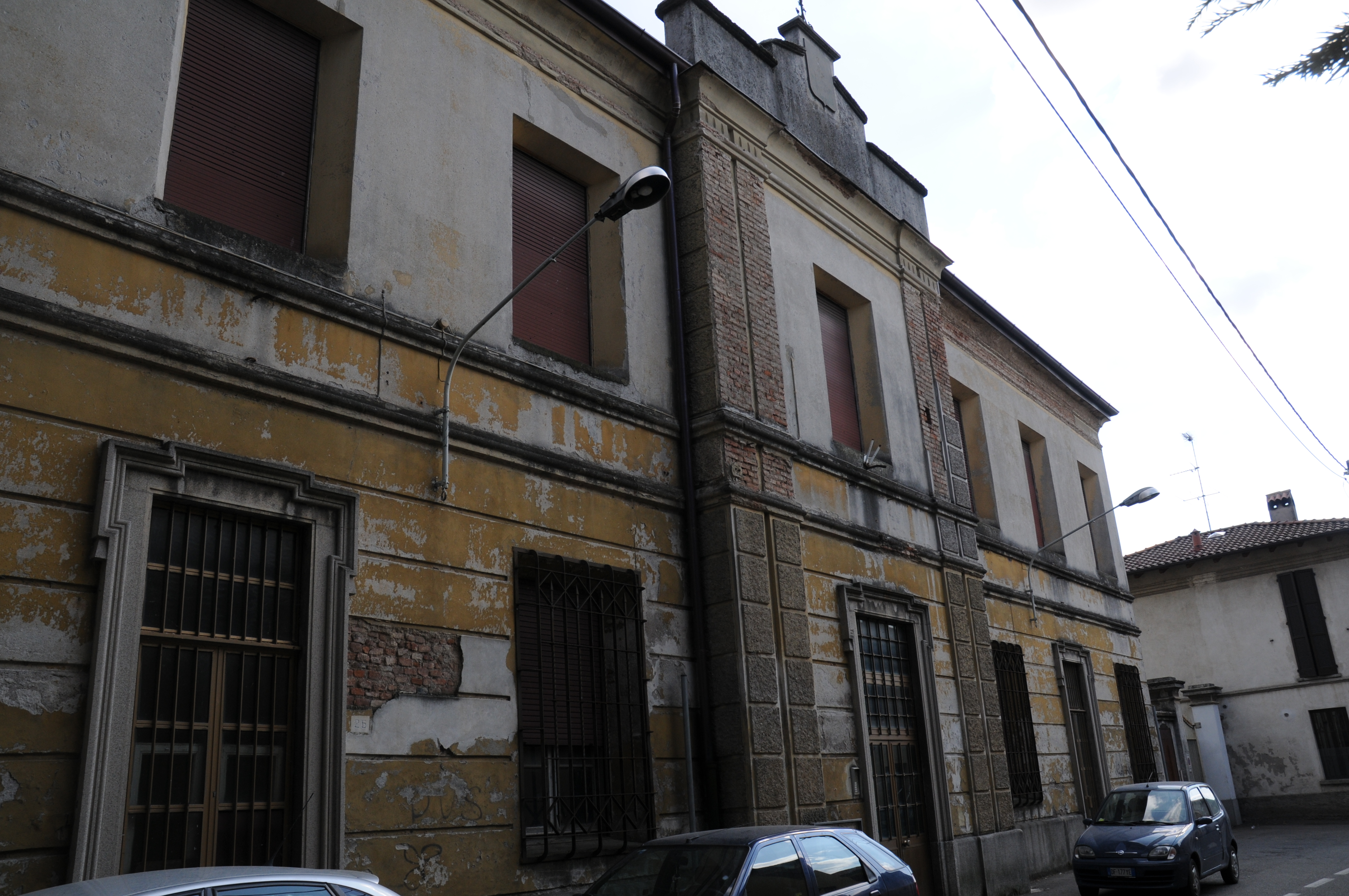 Ancient municipal building in San Giorgio su Legnano (Italy)